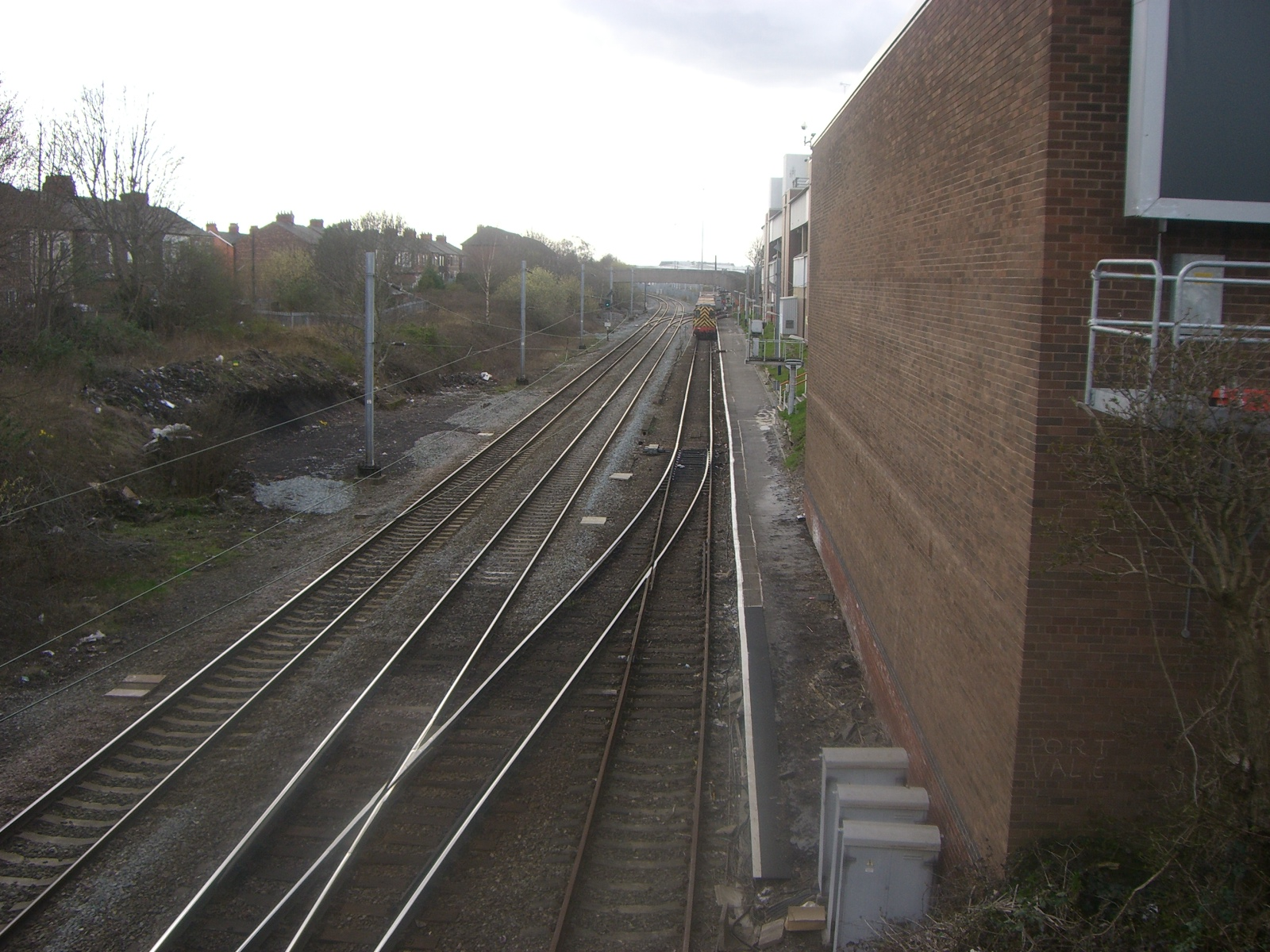 Here is a picture take of Manchester United Halt, by Daniel Leach (atomicdanny). Photo taken on 07/04/2006